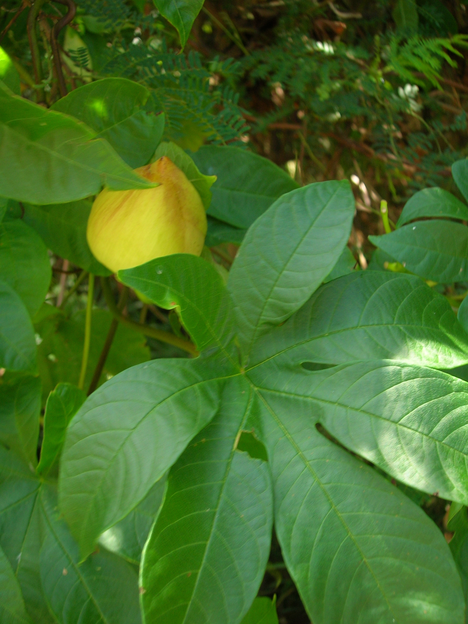 Merremia tuberosa (fruit). Location: Molokai, Kamalo